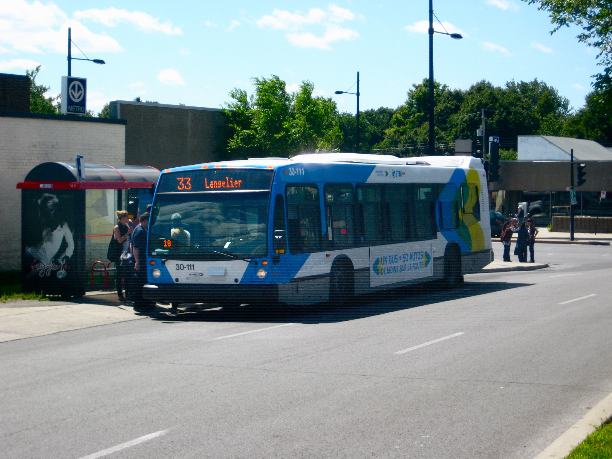 Bus Route 33 at Langelier metro Station.